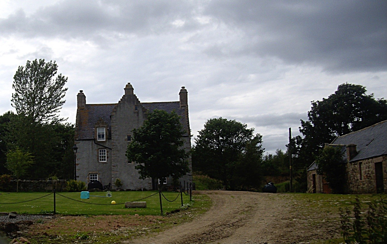 Hallhead House